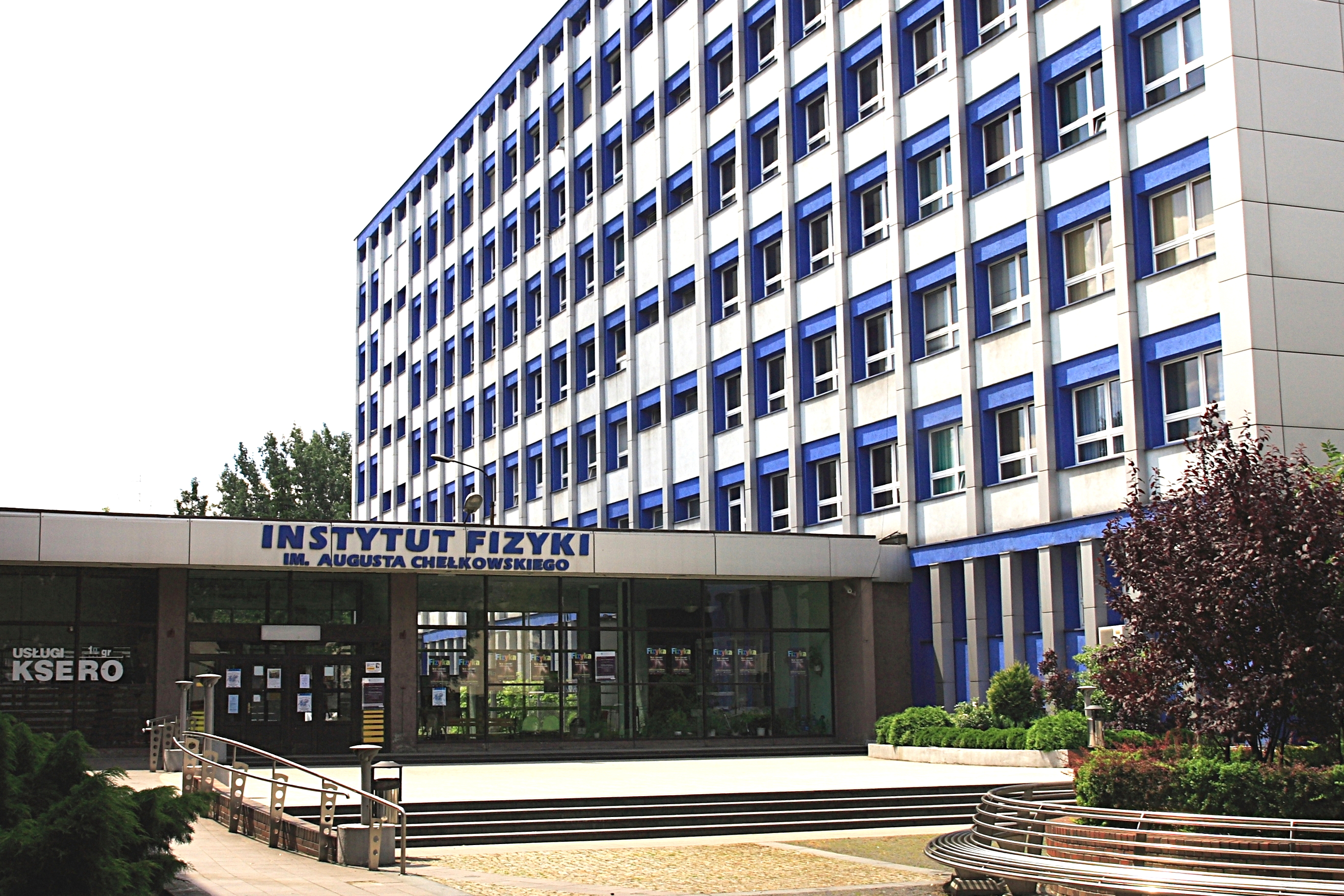 Institute of Physics. University of Silesia (Katowice, Poland)